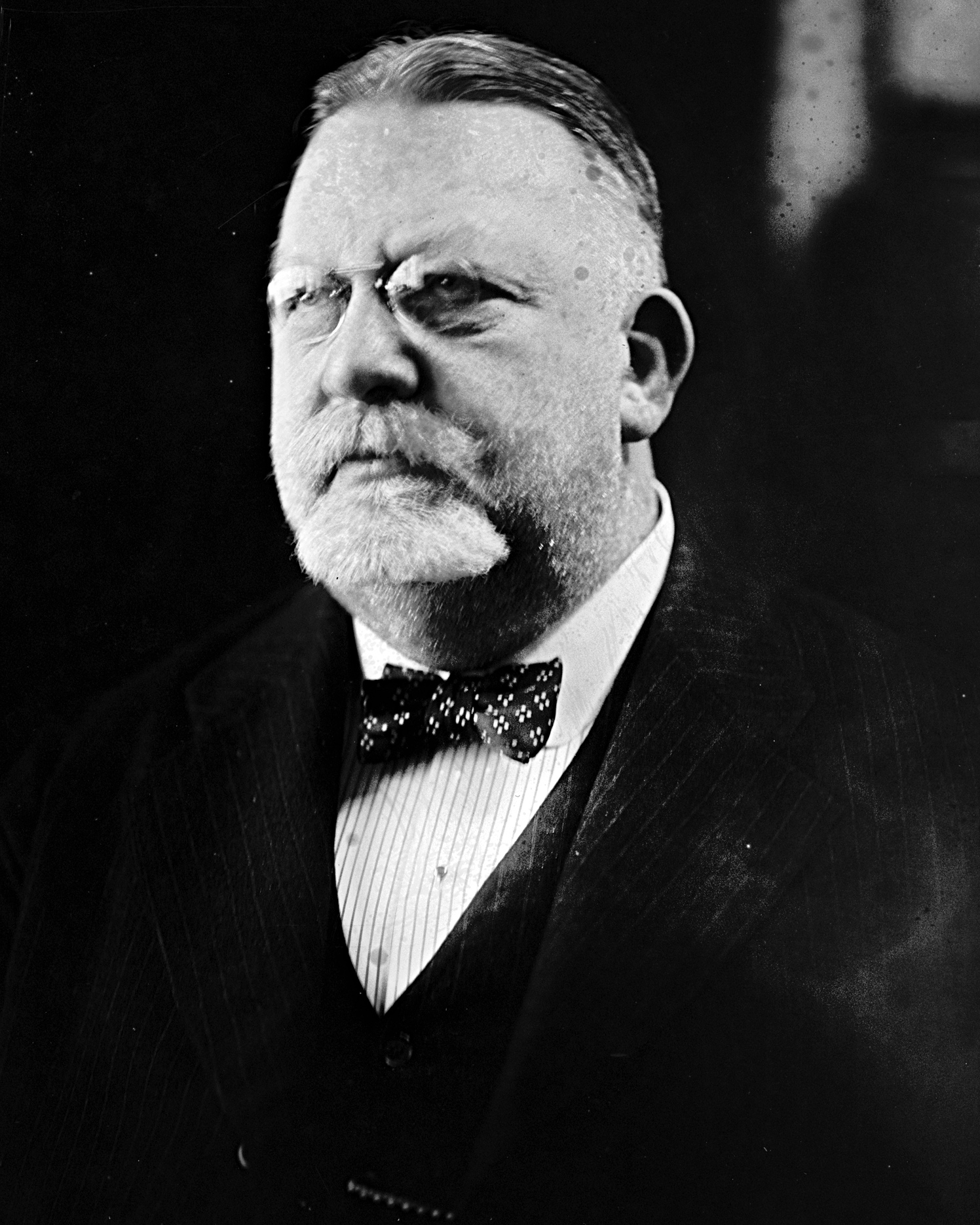 Samuel Winslow, US Representative from Massachusetts